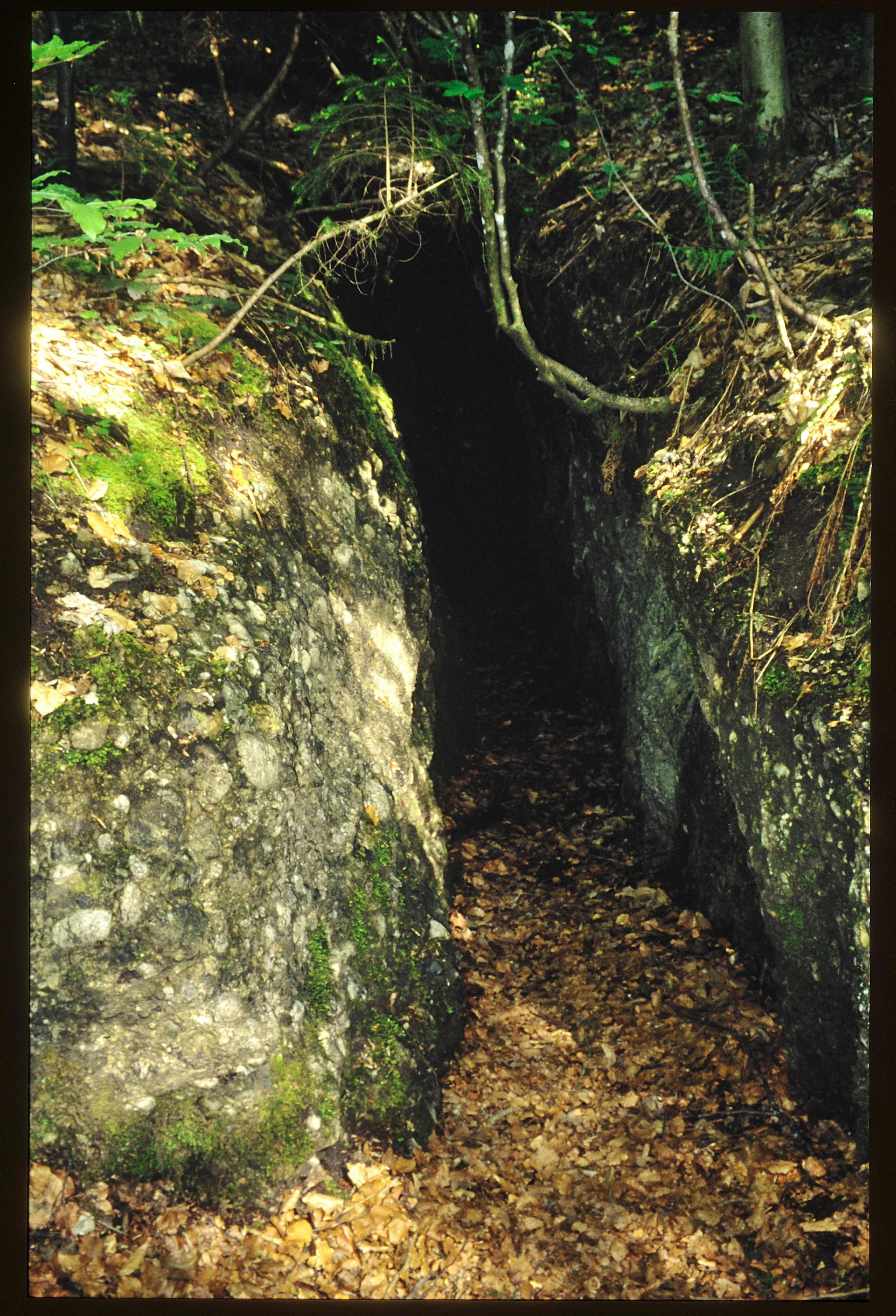 Rockfall site and natural monument Rappenfluh in the municipality of Hittisau in the Bregenzerwald in Vorarlberg (Austria).